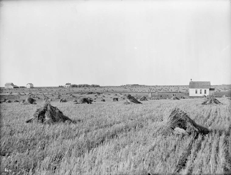 School house, farms etc., Morden, Manitoba.